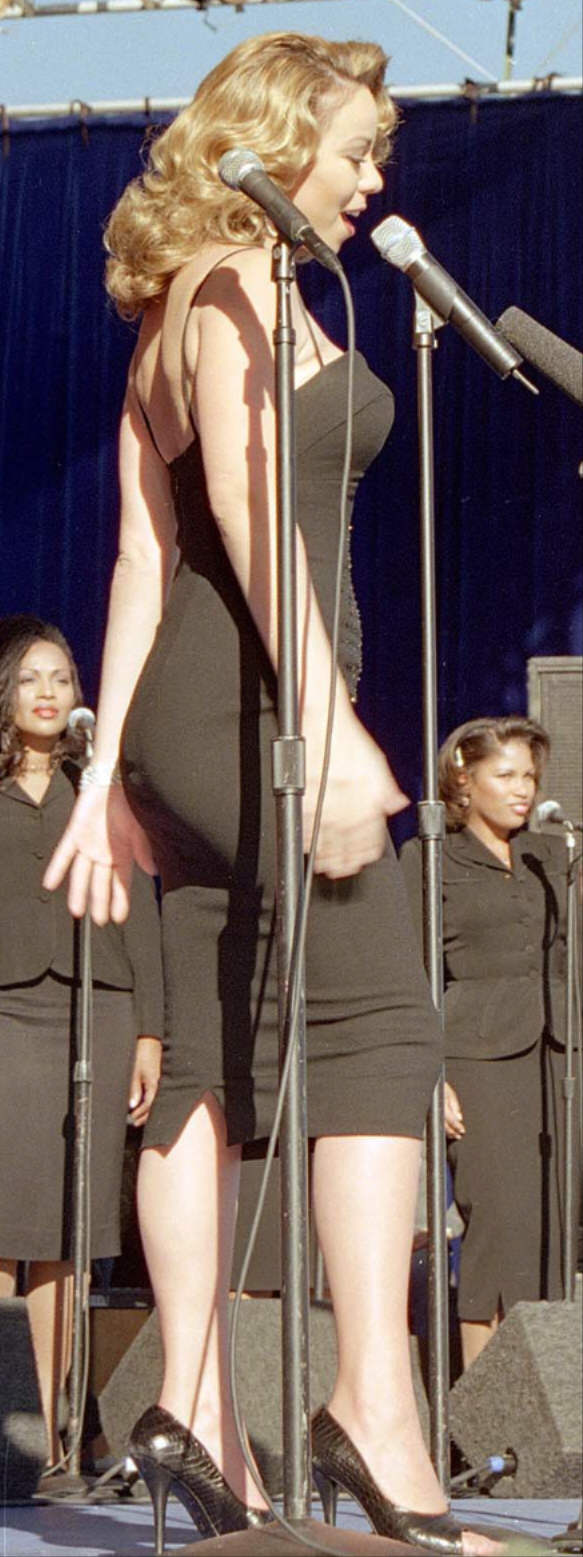 Mariah Carey at Edwards Air Force Base in Dec. 1998. Carey sings "I Still Believe" for the video. Her video "I Still Believe" was taped on Dec. 11 and 12, 1998, at Edwards Air Force Base.